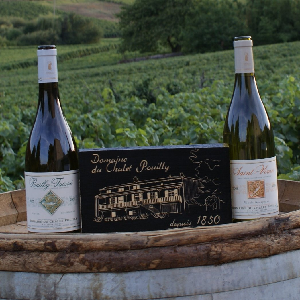 Location : Solutré-Pouilly Appellation : Pouilly-Fuissé & Saint-Véran Grape : Chardonnay Average age of vine: 45 years old Founded : 1850